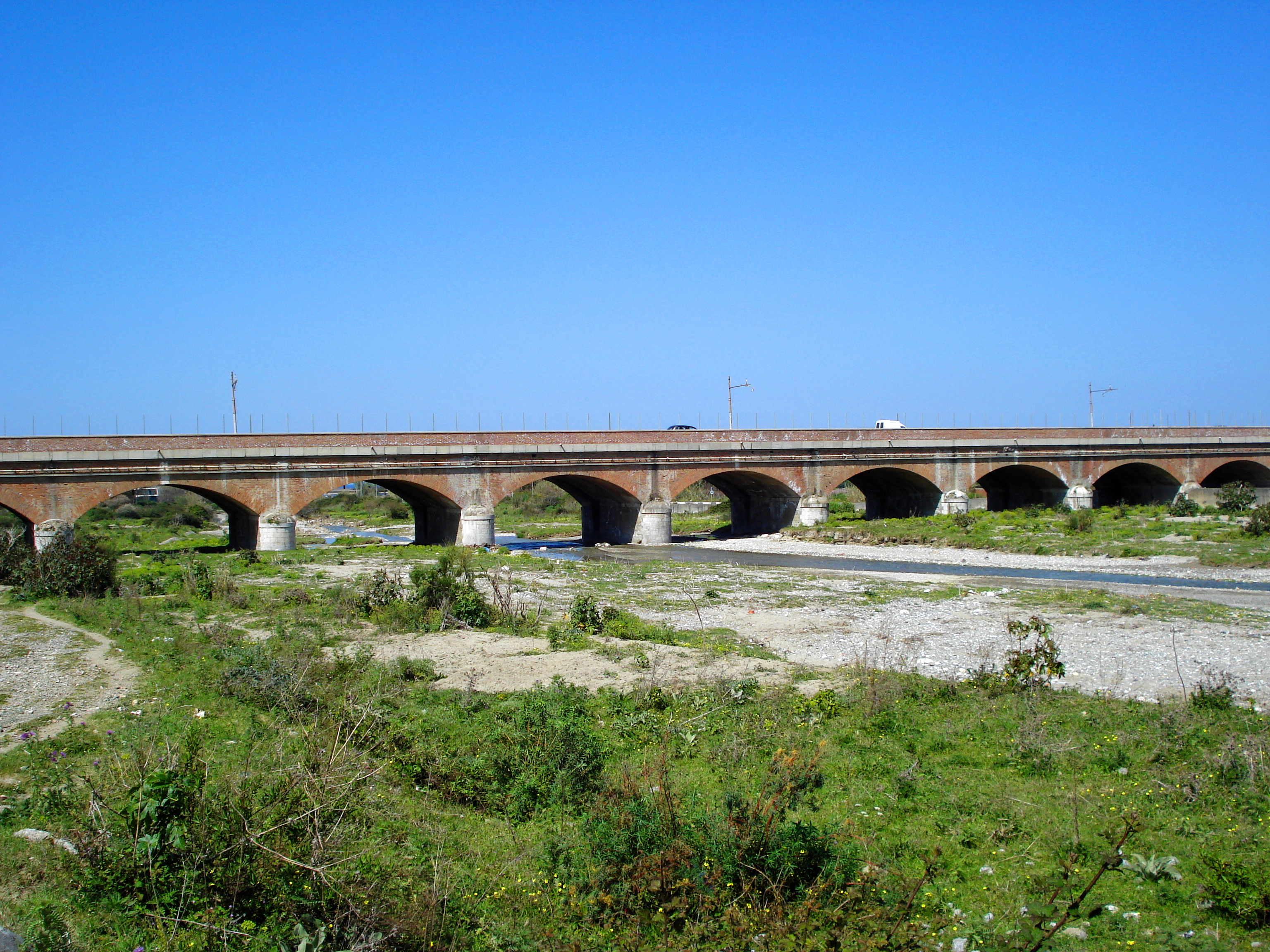 113 Sicilian Road bridge over Niceto River.